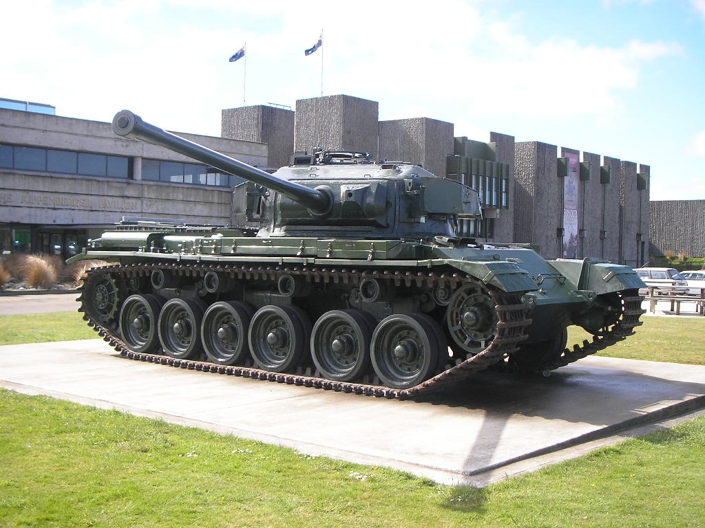 Photograph of a Centurian tank outside the Queen Elizabeth II Army Memorial Museum, Waiouru, New Zealand.